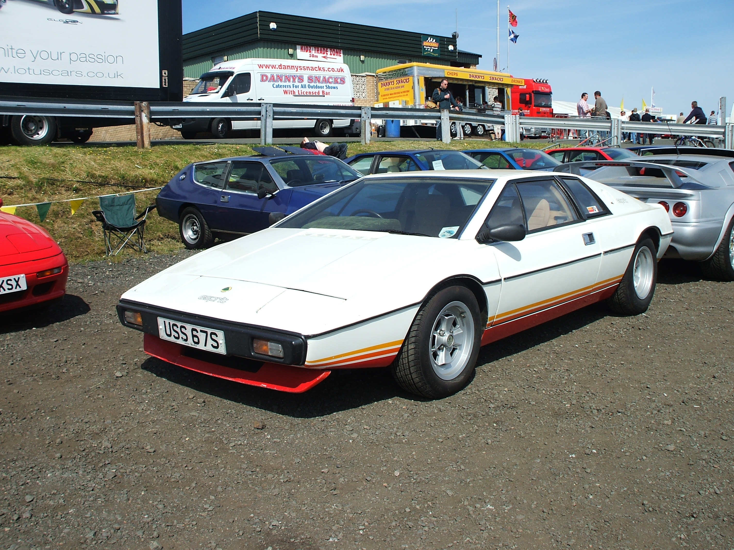 Lotus Esprit (white)